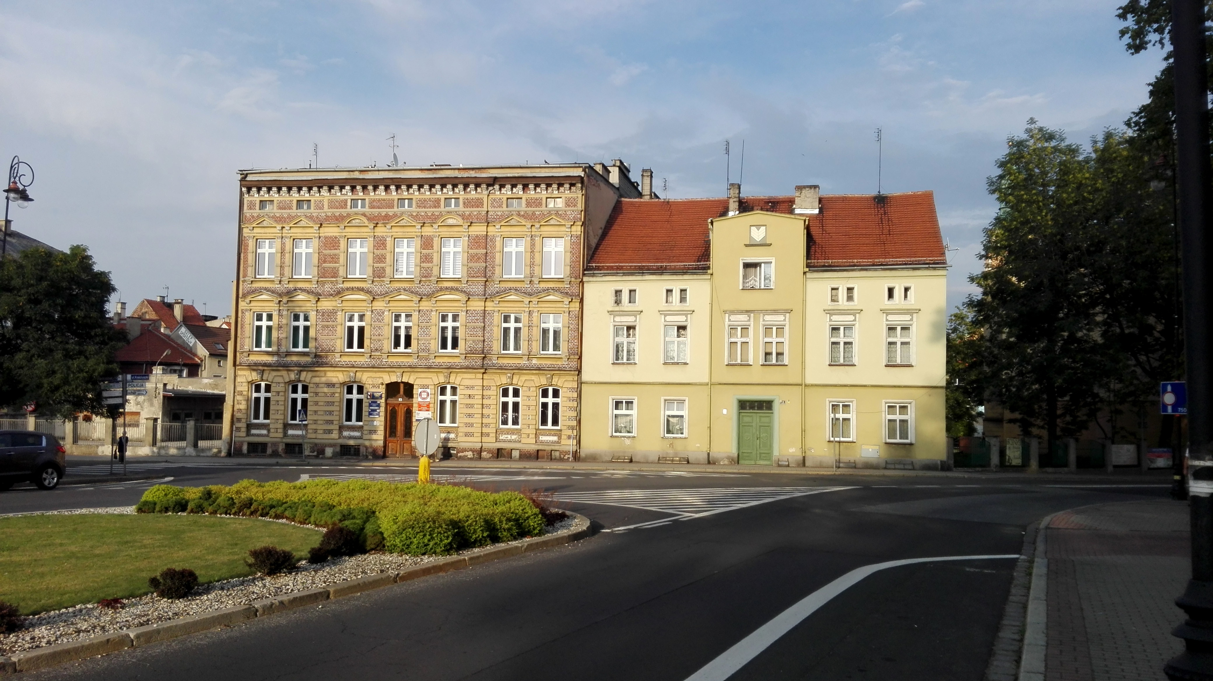 2-4 Klasztorna Street in Prudnik